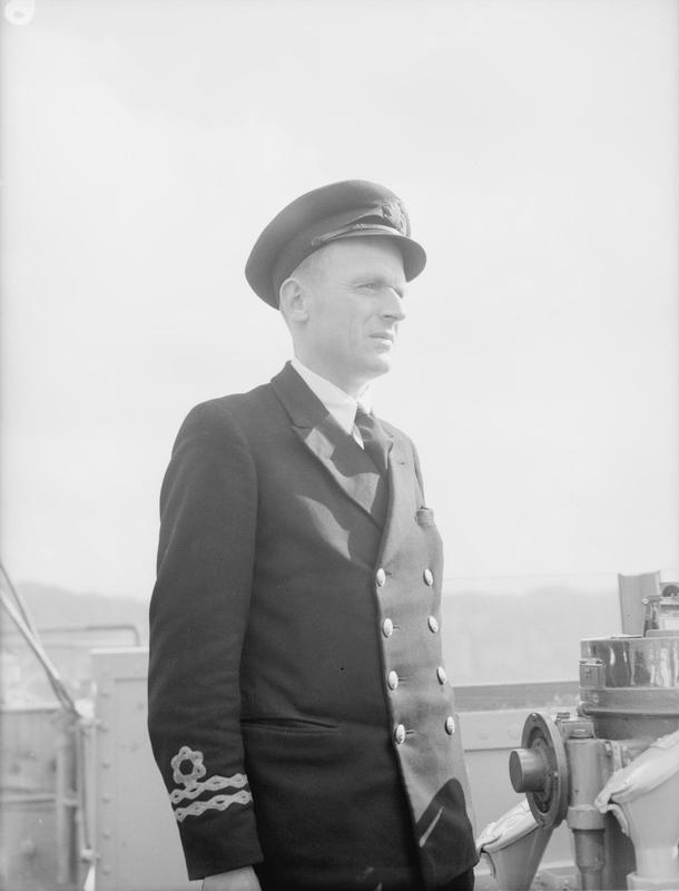 Commander of Corvette Which Attacked Atlantic Boat Pack. 15 April 1943, Londonderry. in a Recent Convoy Battle in the Atlantic the Corvette HMS Loosestrife Attacked With Depth Charges and Probably Sank One of the U-boat Pack. Lieut H A Stonehouse, RNR, Commanding Officer of the Corvette HMS LOOSESTRIFE, on the bridge of his ship.